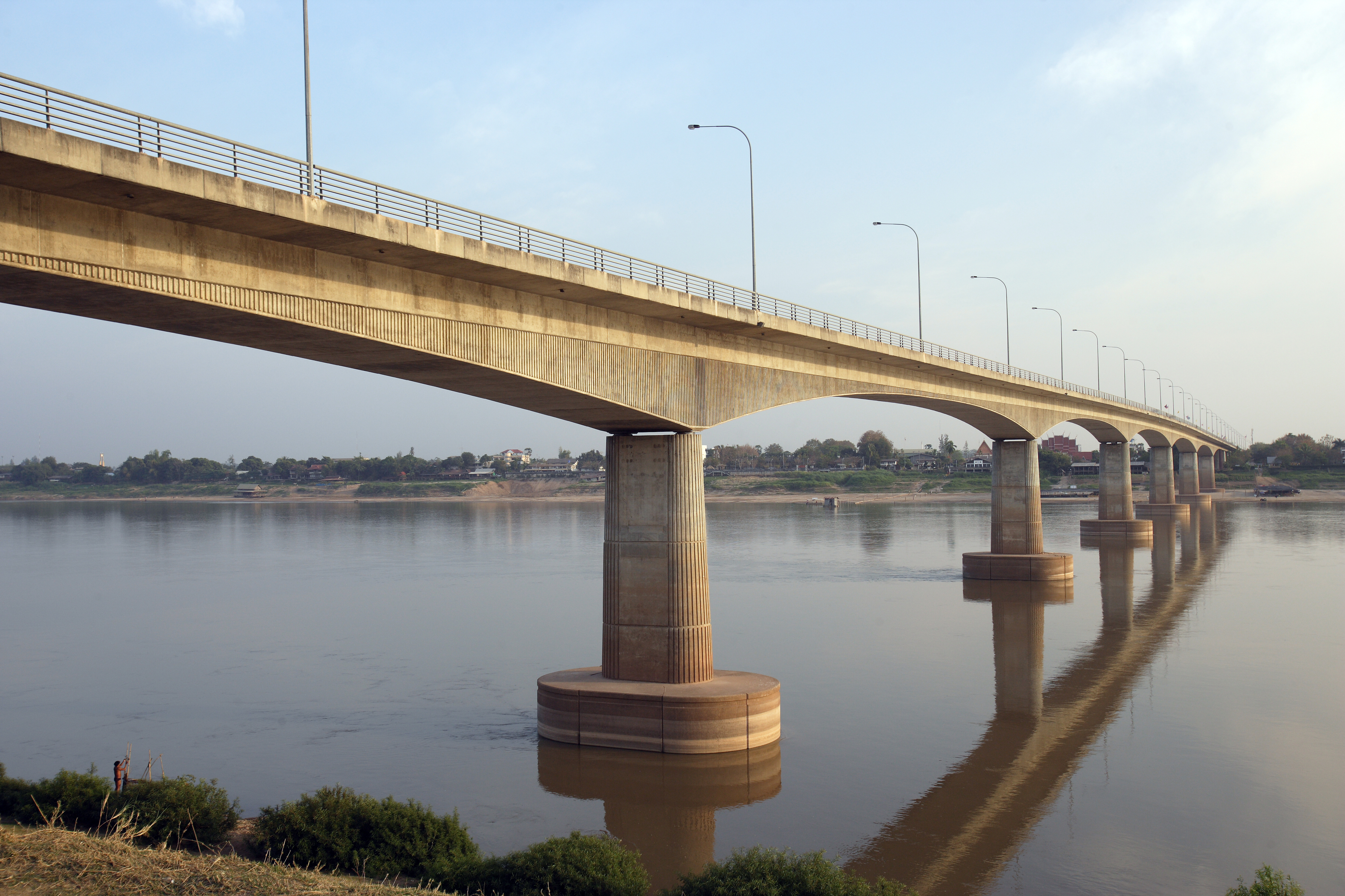 The Friendship bridge built with Australian funding and completed and opened in 1994, crossing the Mekong River and connecting Thailand to Laos, There are now railway lines crossing the bridge, but the process of running trains has still not started. Close to Vientiane, Lao PDR, 2009.